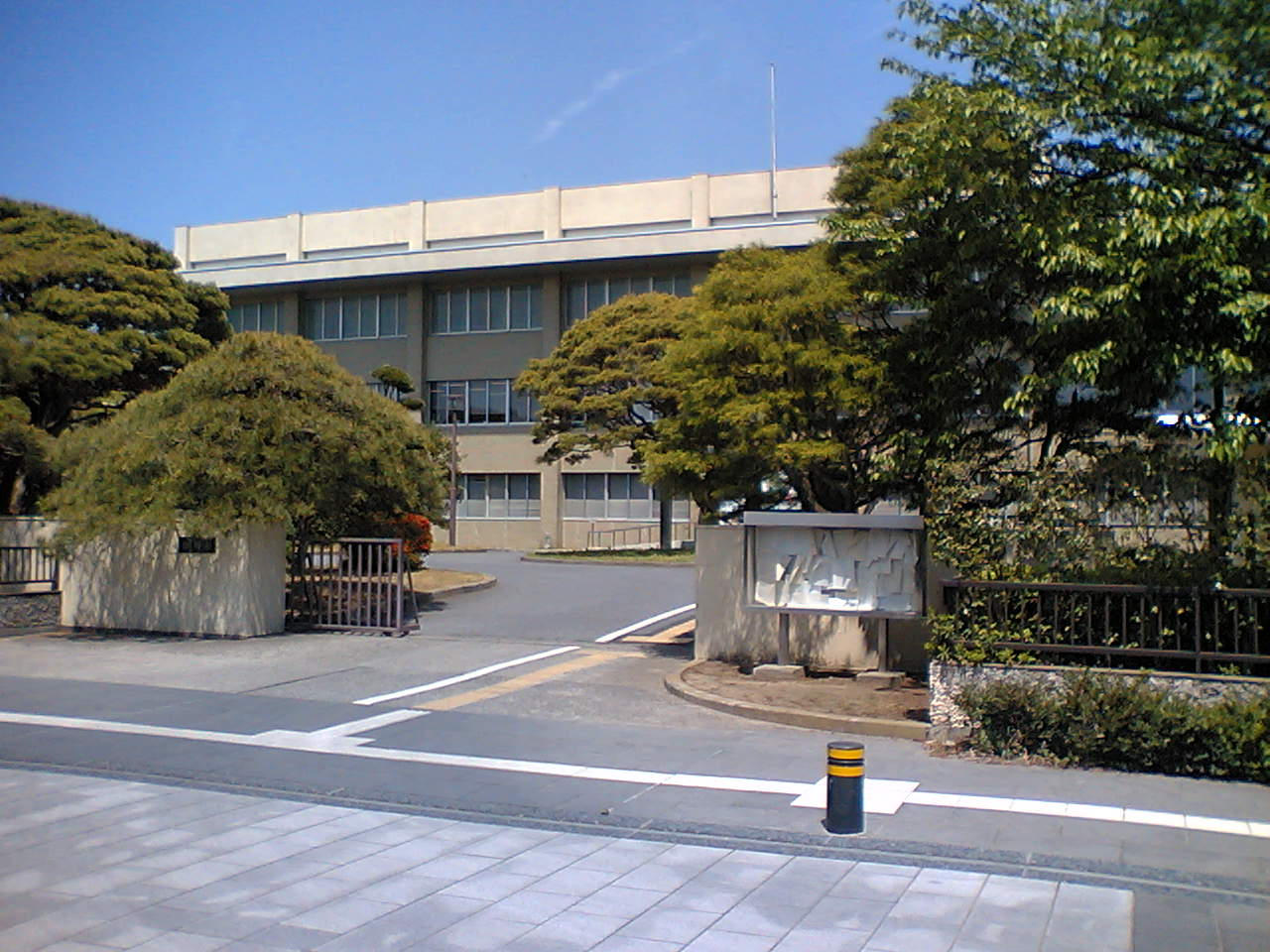 Mito District Court Tsuchiura branch, Tsuchiura, Ibaraki prefecture, Japan.